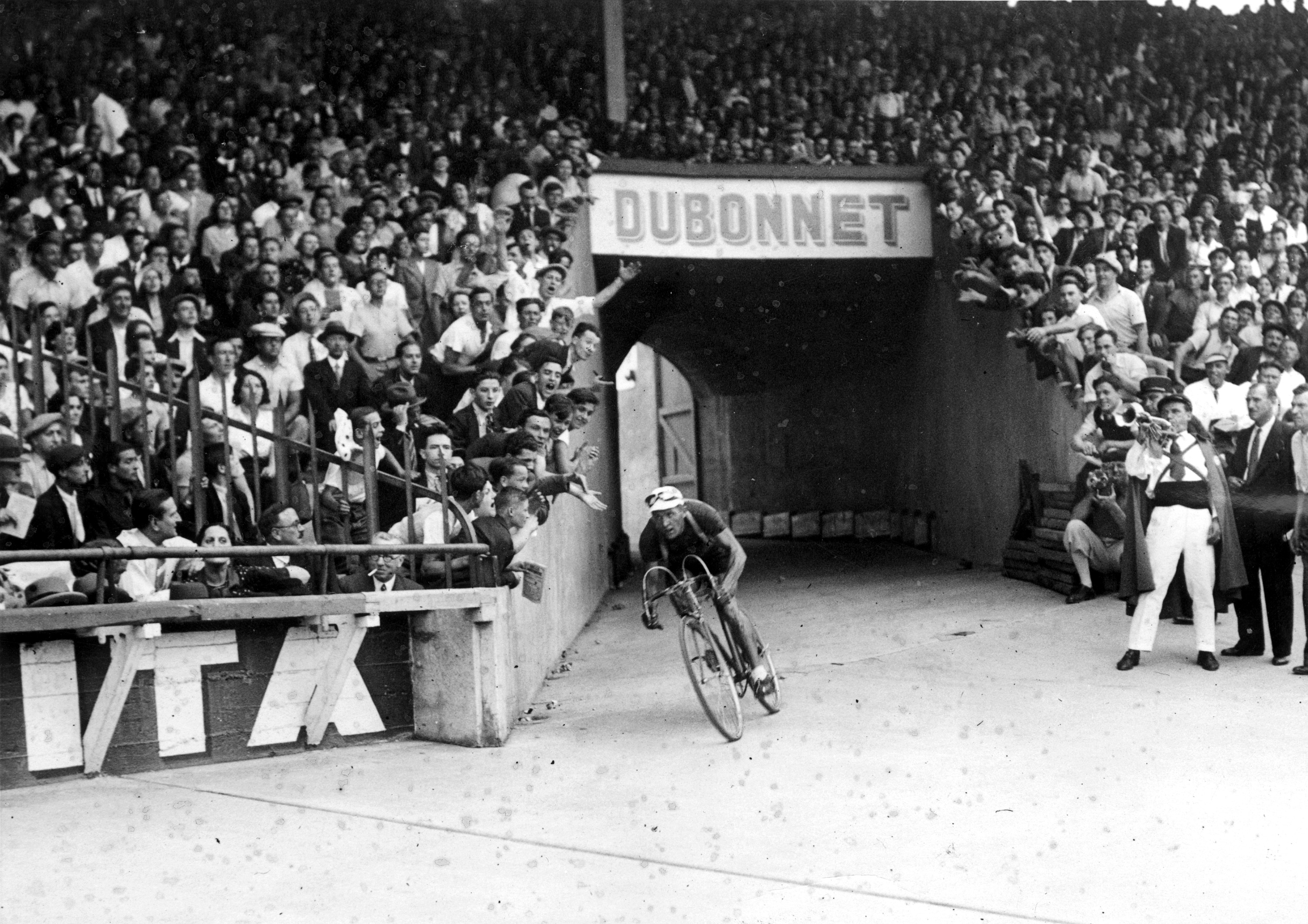 Cycling, 1935 Tour de France, 27th stage Caen-Paris. Being watched by a huge audience, Belgian Romain Maes, stagewinner and overall winner, enters the Parc des Princes stadium. Paris, 28 July 1935.